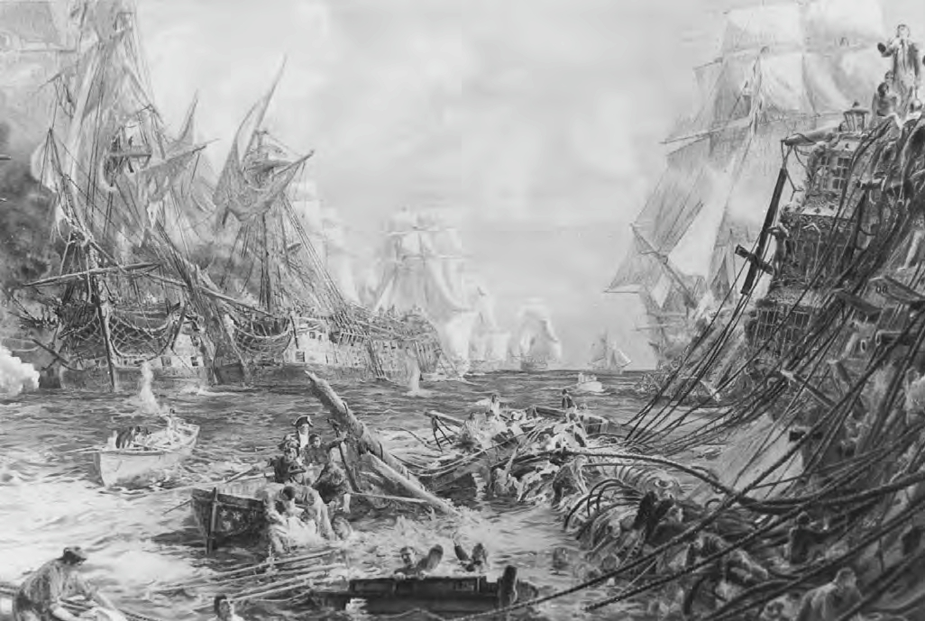 The Battle of Trafalgar. Nelson’s overwhelming triumph over the combined Franco-Spanish fleet ensured Britain’s protection from invasion for the remainder of the Napoleonic Wars.